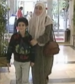 Photo of Omar Khadr, copyright released into the public domain by the Khadr family in Toronto.